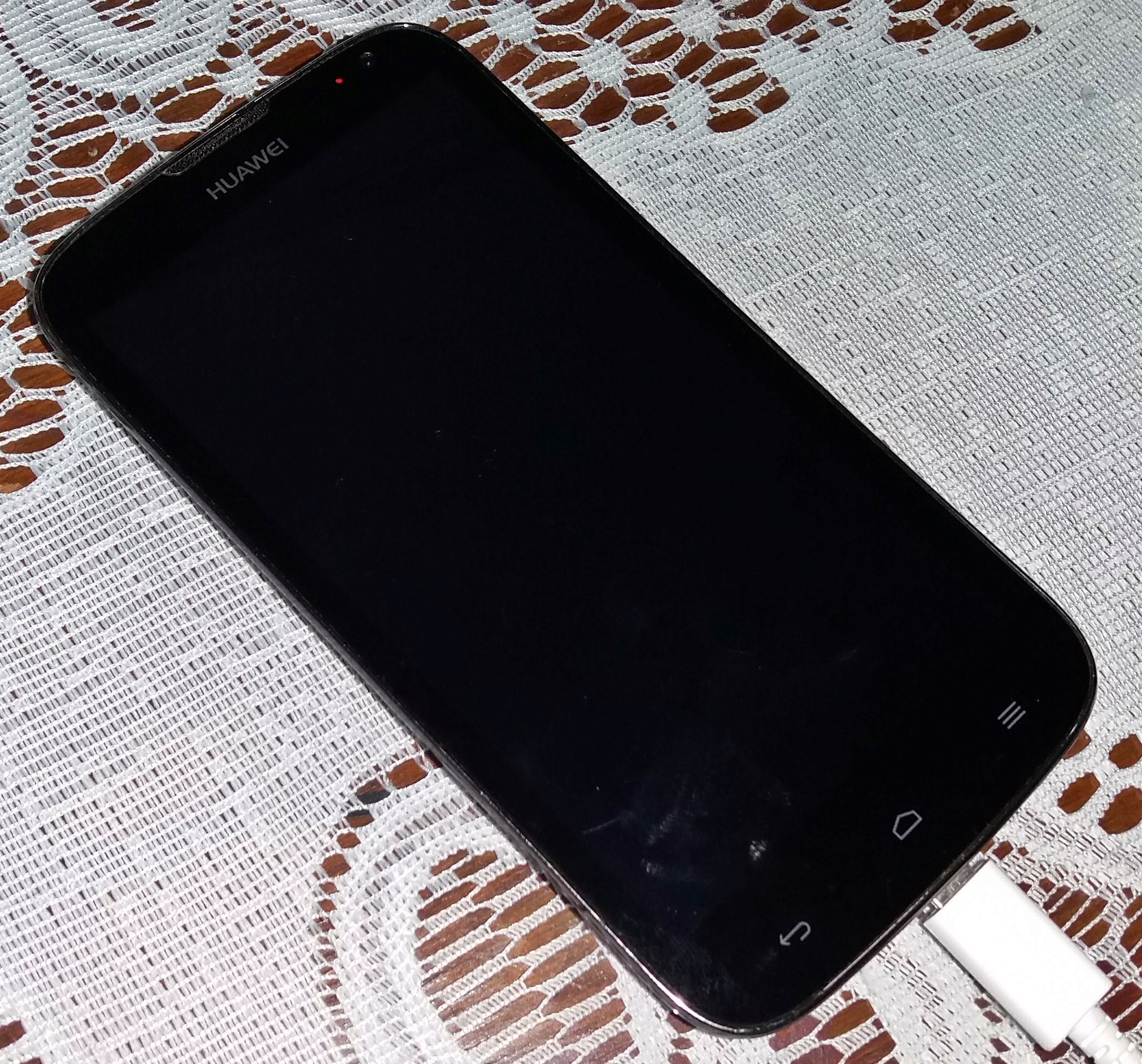 Huawei Ascend G610-U15 3G HSPA+ with Jelly Bean 4.1.2